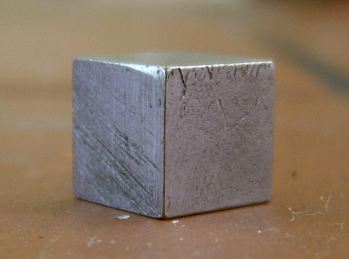 A metal cube of Tin